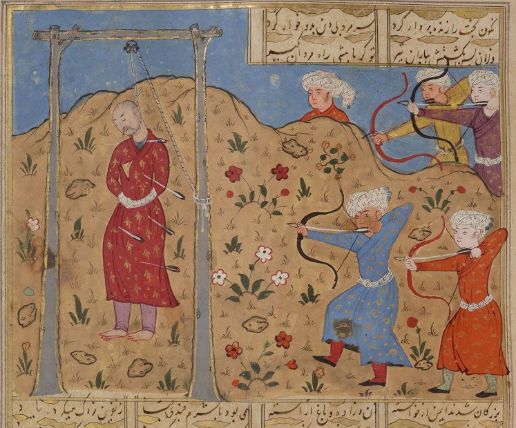 The Iranian prophet Mazdak being executed.